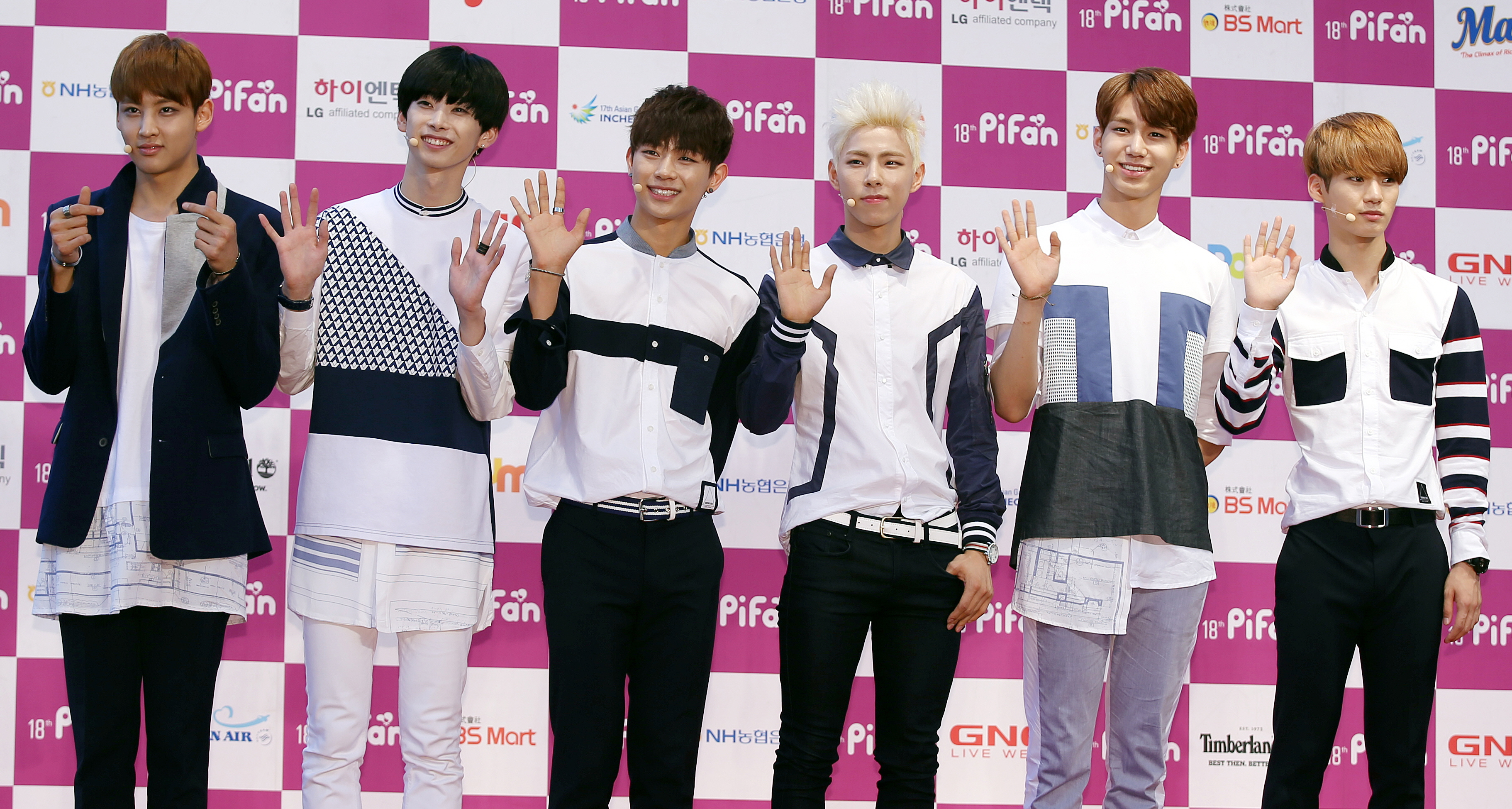 Idol group ‘HALO’ members arrive at the red carpet event of the Puchon International Fantastic Film Festival in Bucheon on July 17, 2014